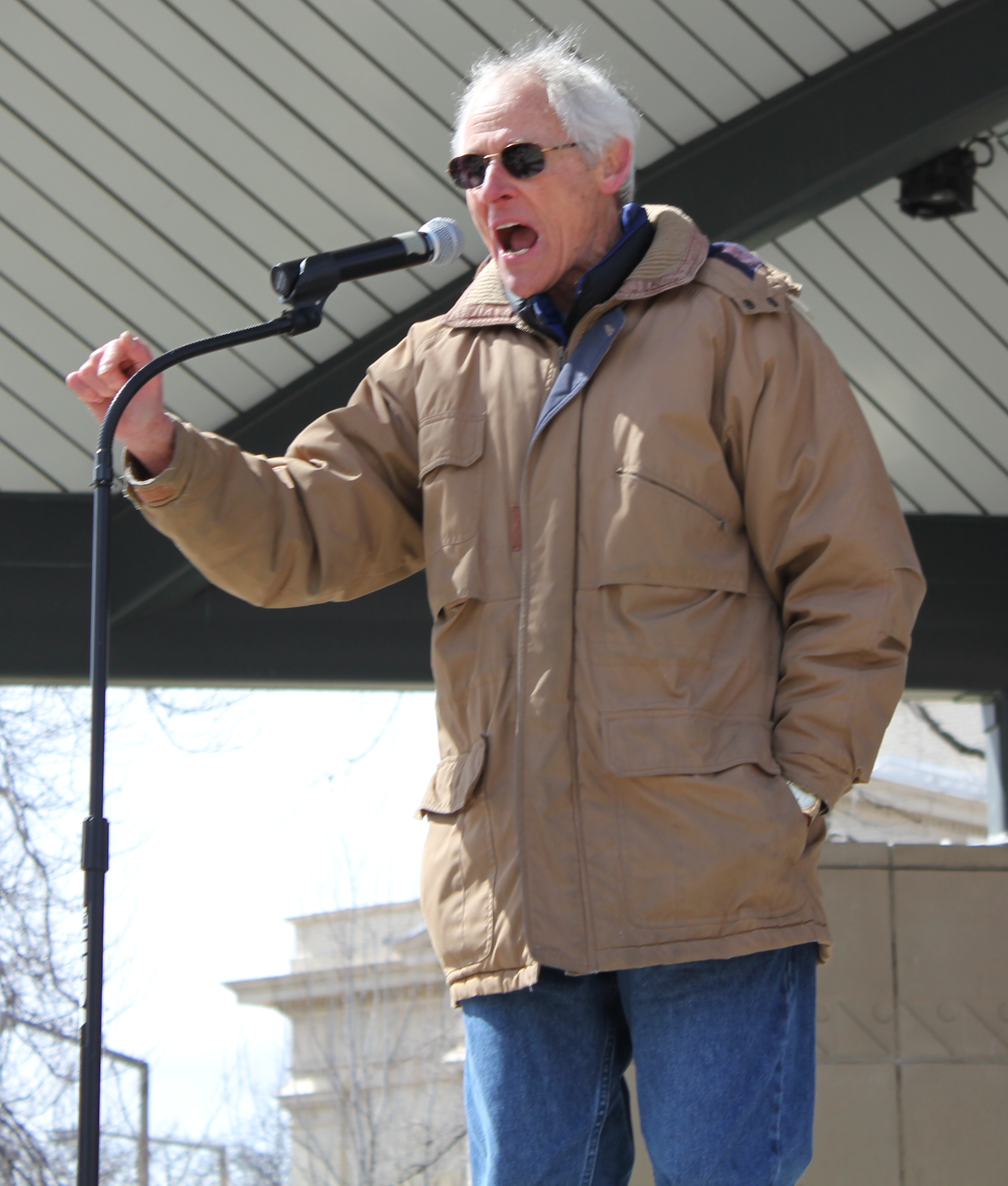 Michigan politician Don Cooney speaking